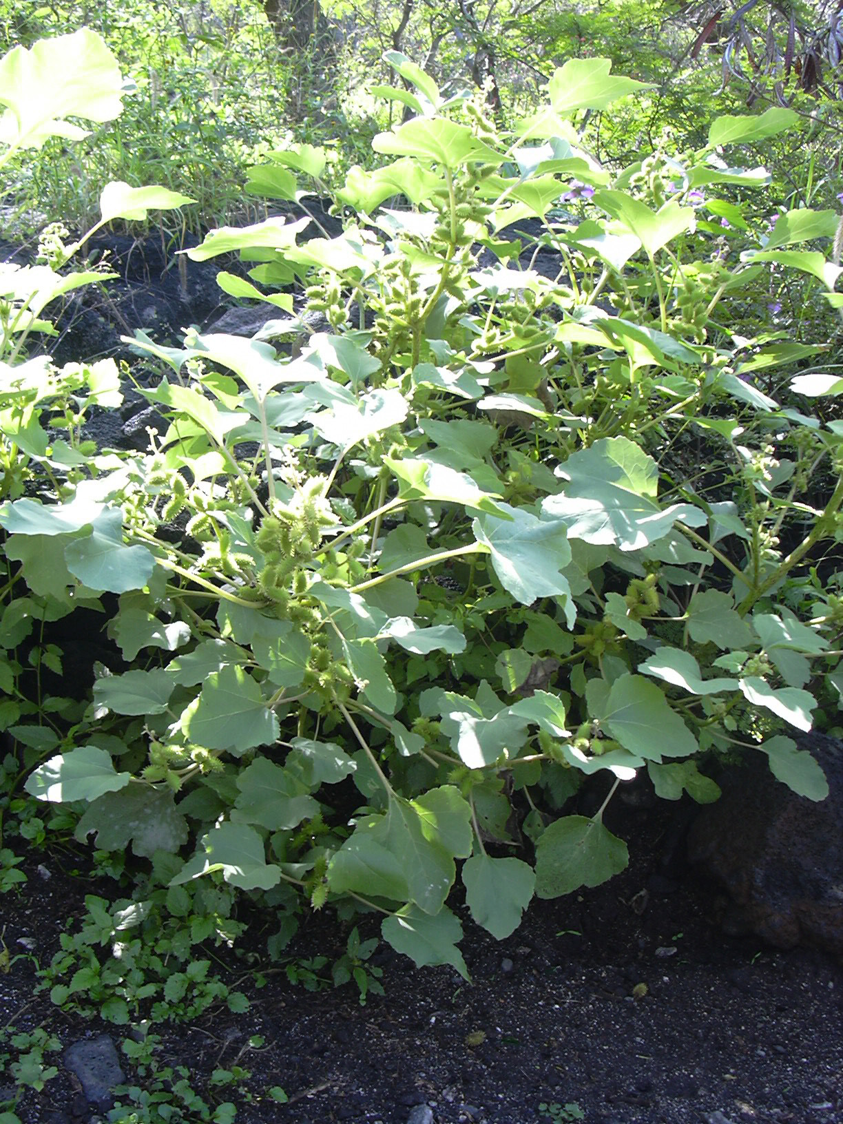 Xanthium strumarium var. canadense (habit). Location: Maui, LaPerouse